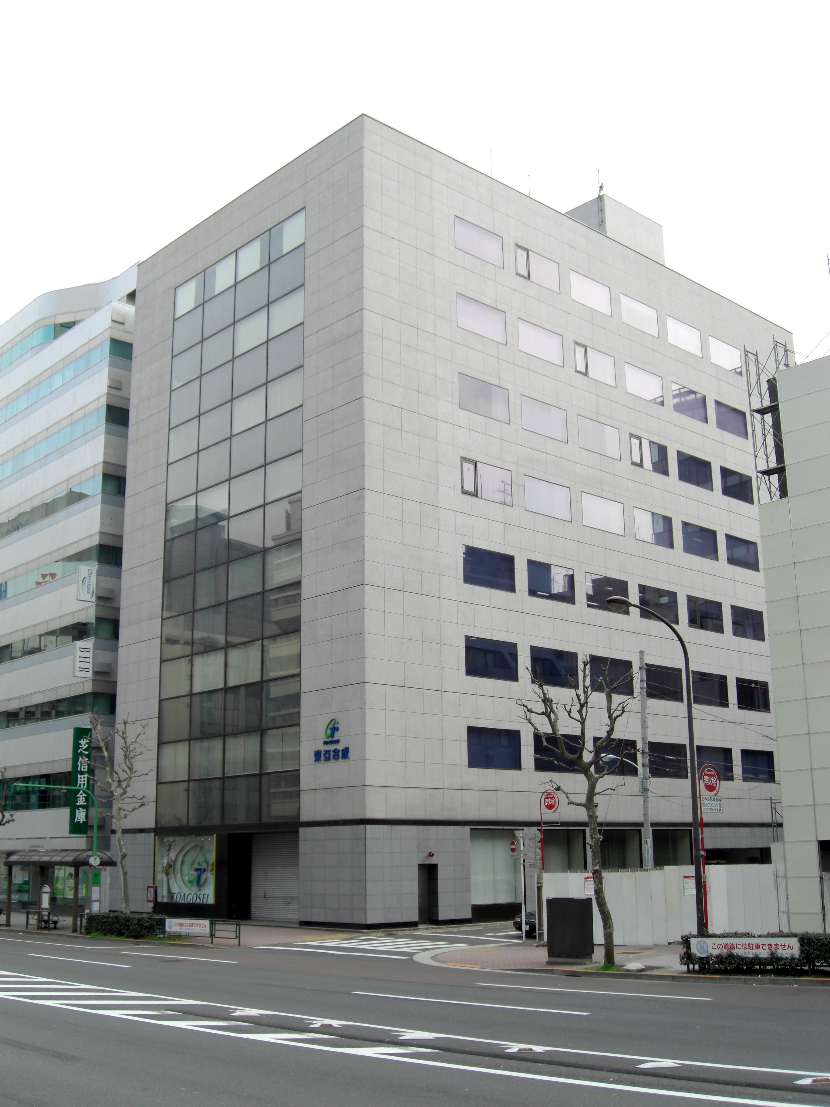 Toagosei Co., Ltd. Head office